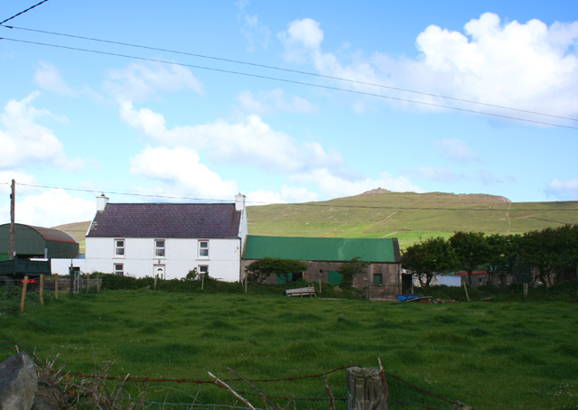 Farmhouse with Ballydavid Head behind Traditional farmhouse to the east of the village of Feohanagh (An Fheothanach) in the north west of the Dingle Peninsula. Ballydavid Head (Ceann Bhaile Dhaith) is in the background